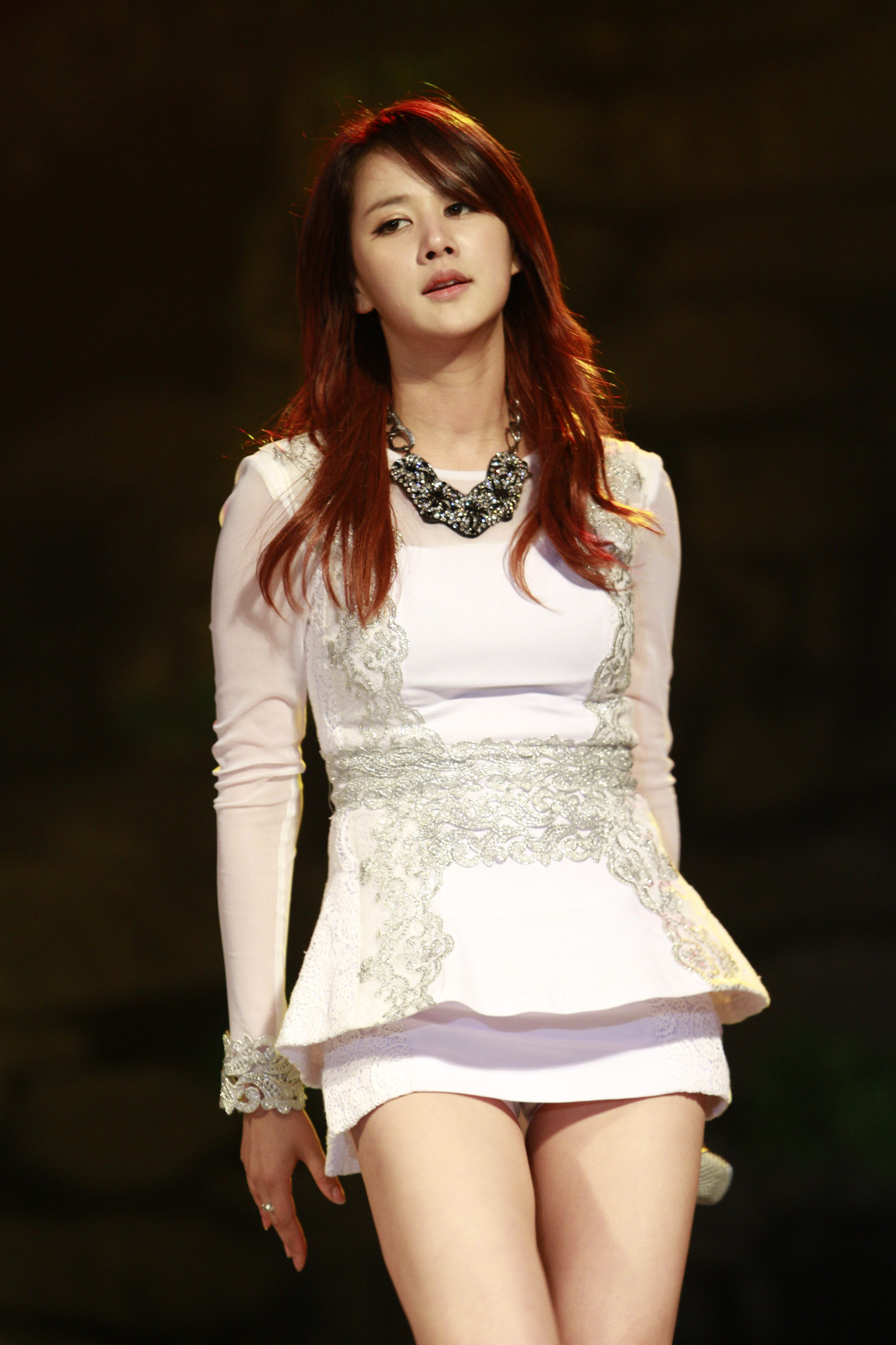 2012.05.04 Hwadojin Festival SPICA-Park Si Hyun